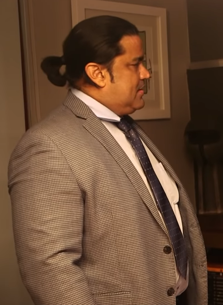 Foto de Superestrellas de la Lucha Libre del sábado 15 de febrero de 2020